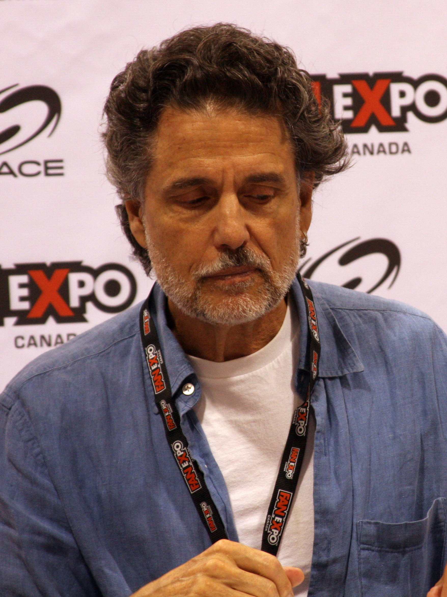 Chris Sarandon at the 2012 Fan Expo Canada